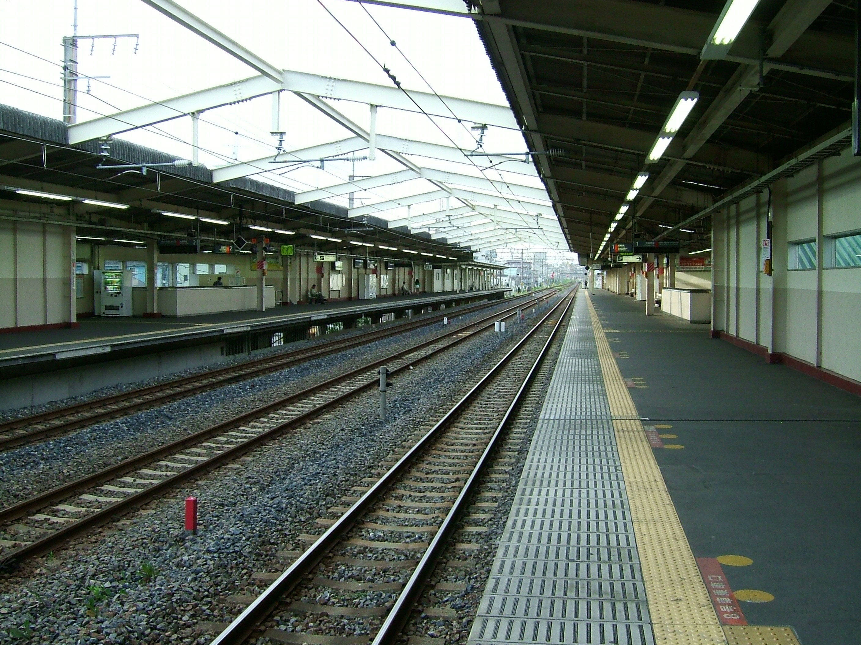 The platforms at Minami-Nagareyama Station on the Musashino Line in Nagareyama city, Chiba prefecture, Japan